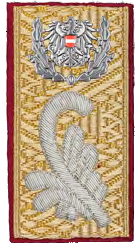 Rank patch of the Austrian Federal Police (2015)